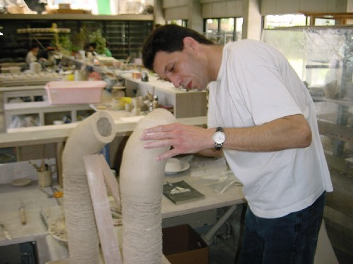 The plastic artist João Carqueijeiro on a workshop in Japan